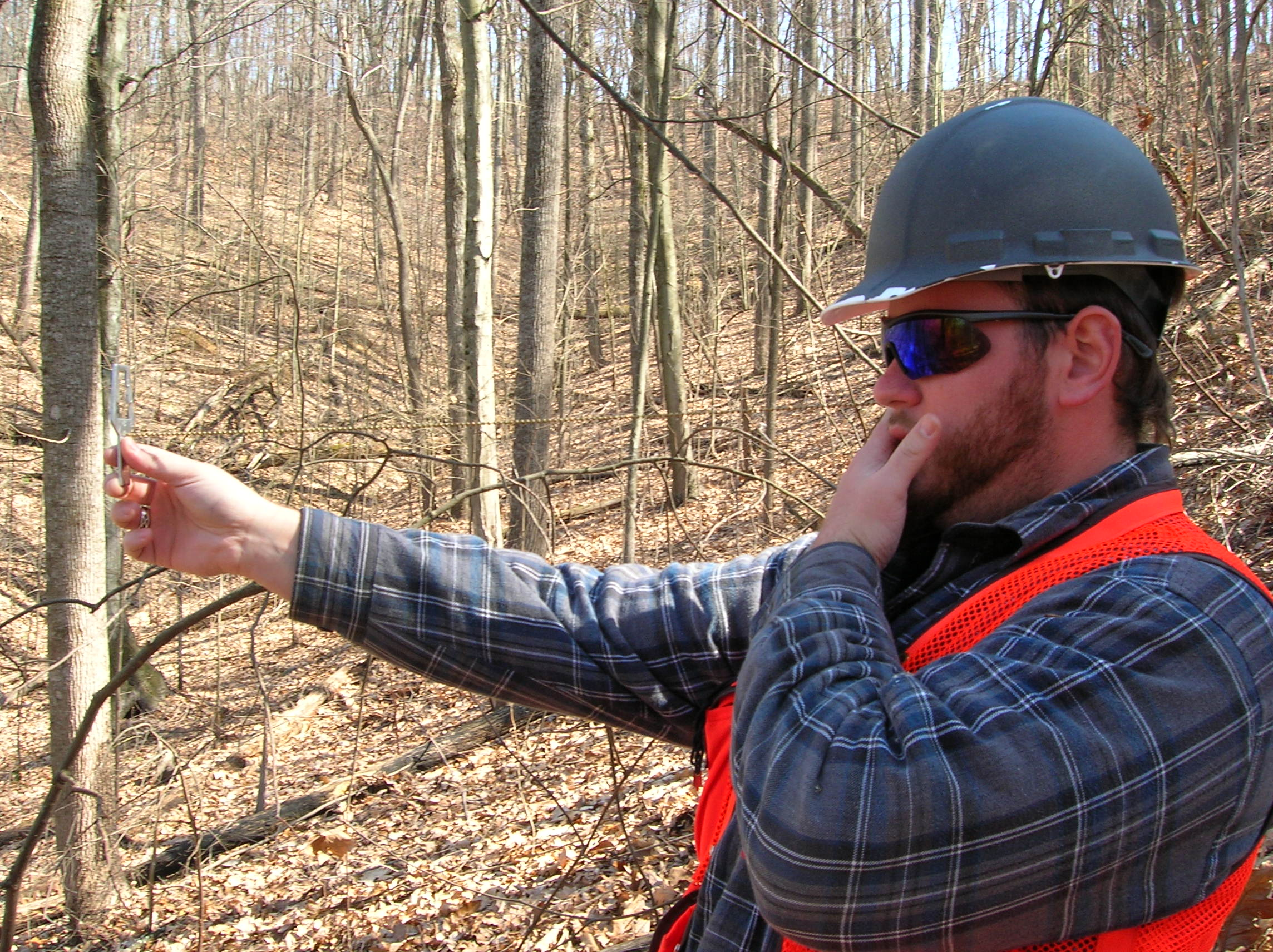 A angle gauge is a tool for measuring of basal areas of trees.